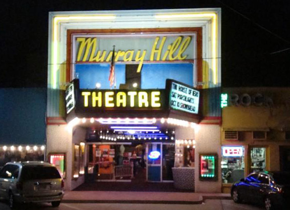 Murray Hill Theatre in October 2009.